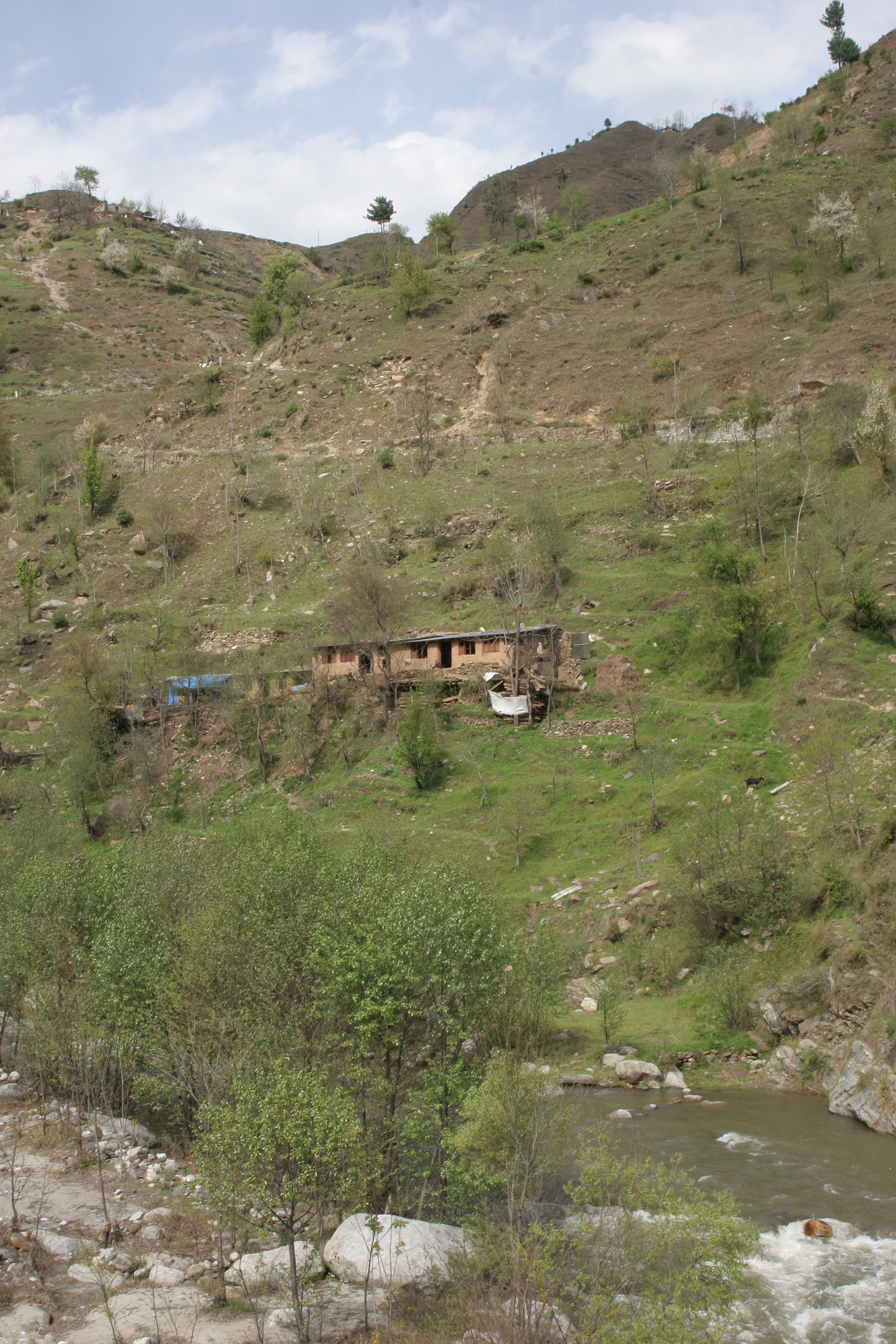 View of Siran Valley, Manshera District, NWFP, Pakistan